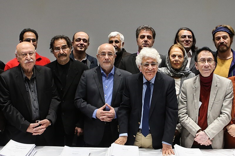 Loris Tjeknavorian at Music Museum 2017